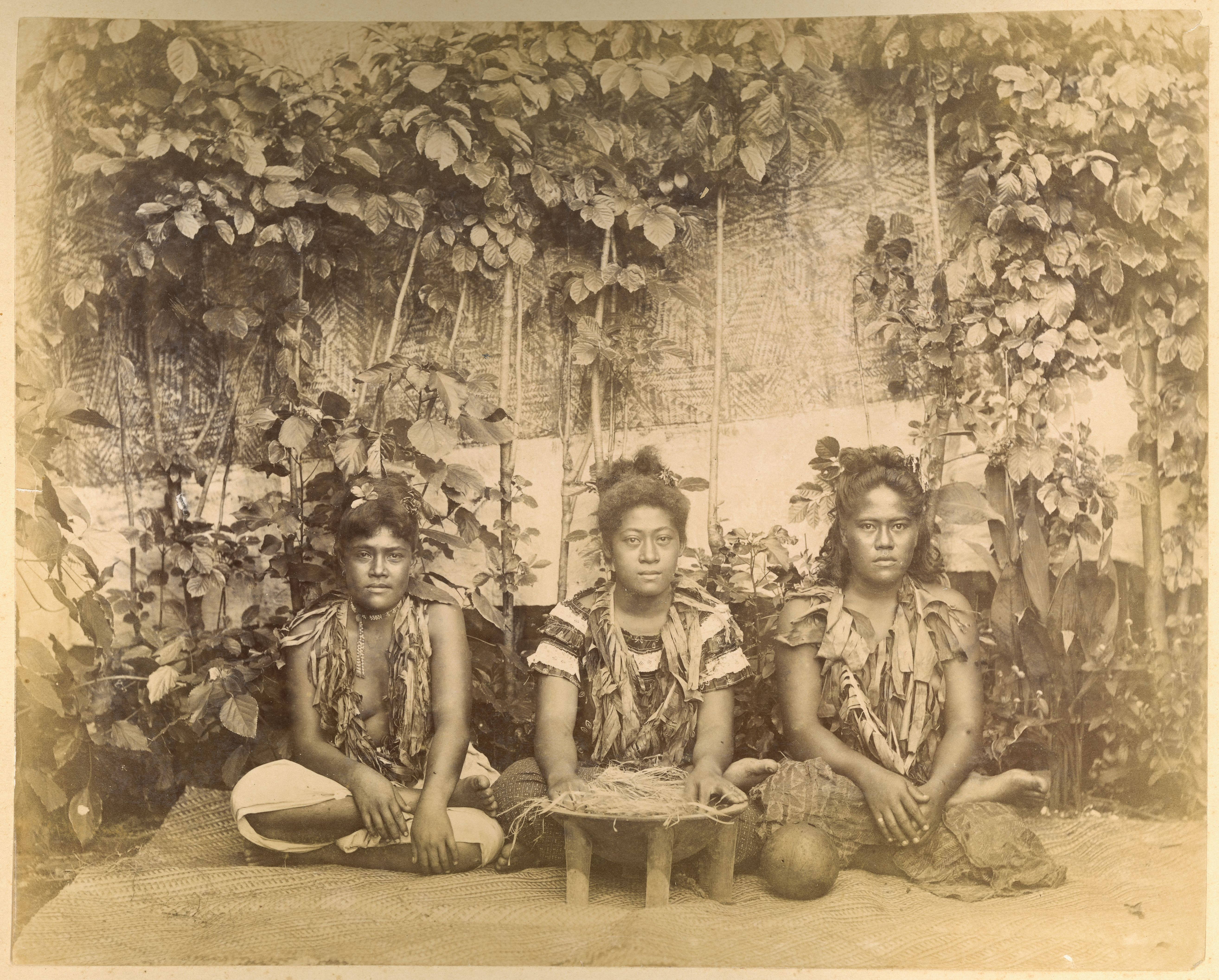 Three Samoan women preparing to make kava, ca 1890. Reference Number: PA1-o-547-24. Three Samoan women preparing to make kava. They are seated on mats in a row in front of a screen of plants and tapa cloth. The kava bowl is placed in front of the central woman. Photographed by an unknown photographer in about 1890.